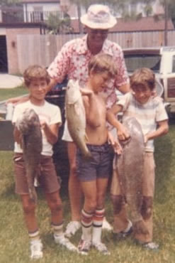 Fish on left and right are black drum caught in the jetties of Calcasieu Pass, Cameron Parish, Louisiana. A red drum is in the middle. The drum were caught using [shrimp] for bait on 80 lb braided line and steel leaders.